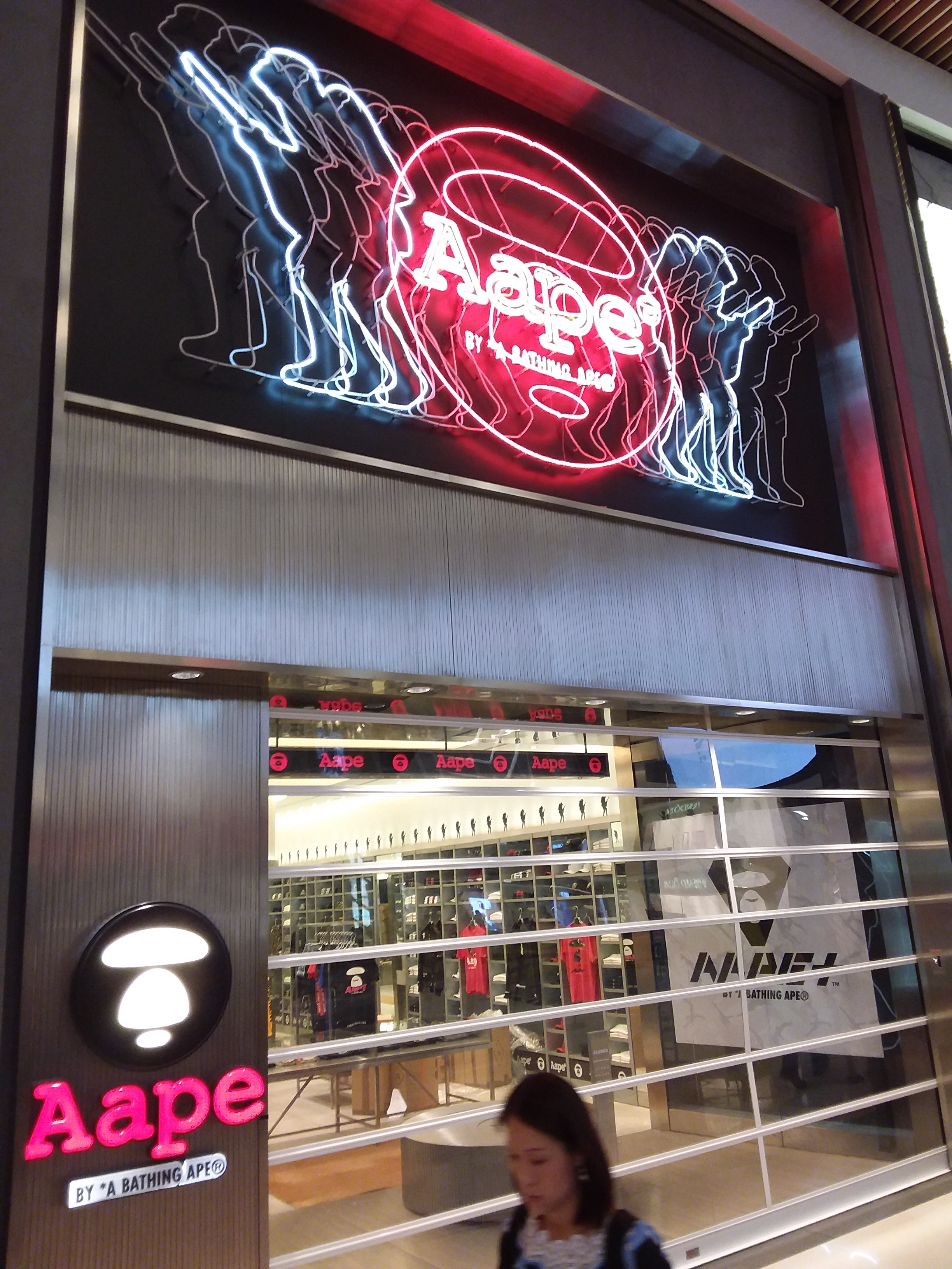 HK 元朗 Yuen Long Yoho Midtown mall shop August 2018